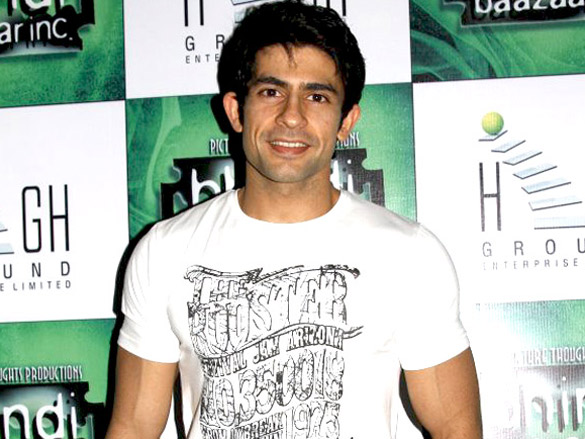 Hussain Kuwajerwala still